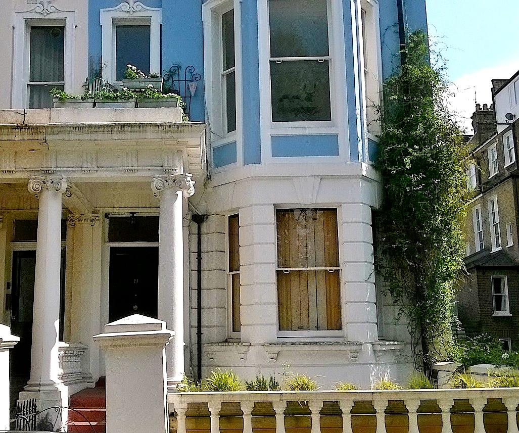 19 Colville Terrace, Notting Hall Gate, London